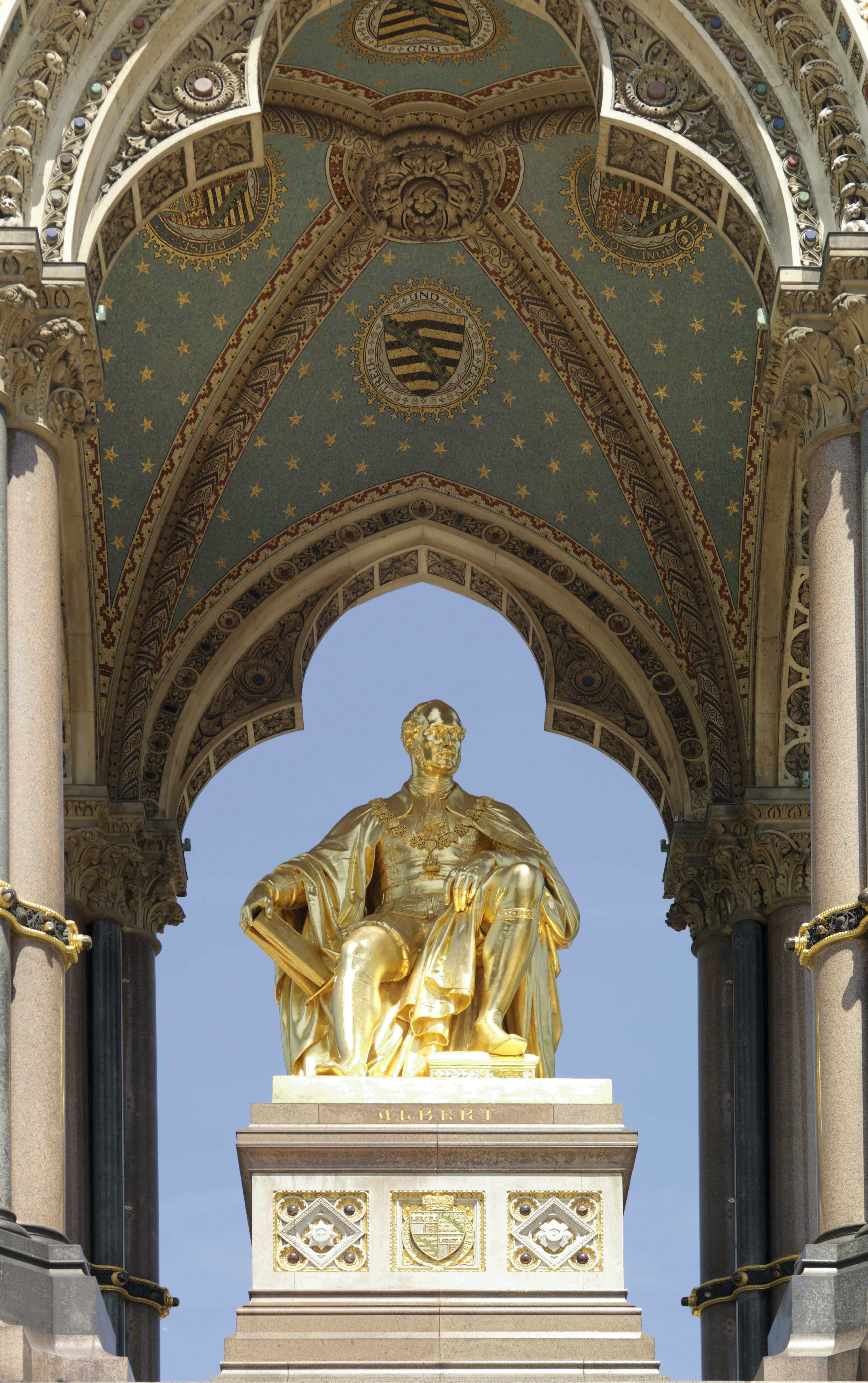 Albert Memorial in Kensington Gardens, London, England.